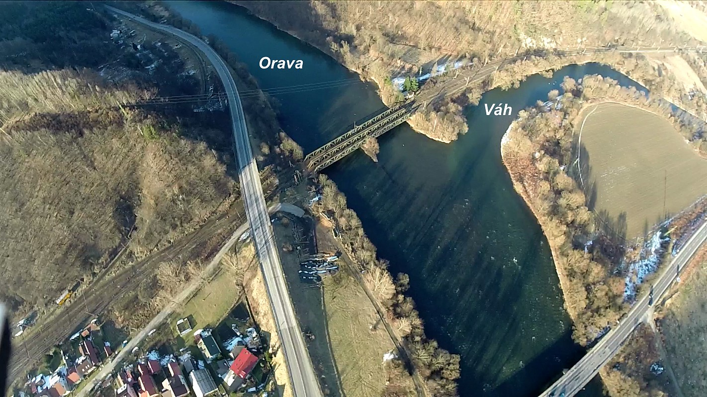 Confluence of Orava and Váh rivers, Slovakia, Europe